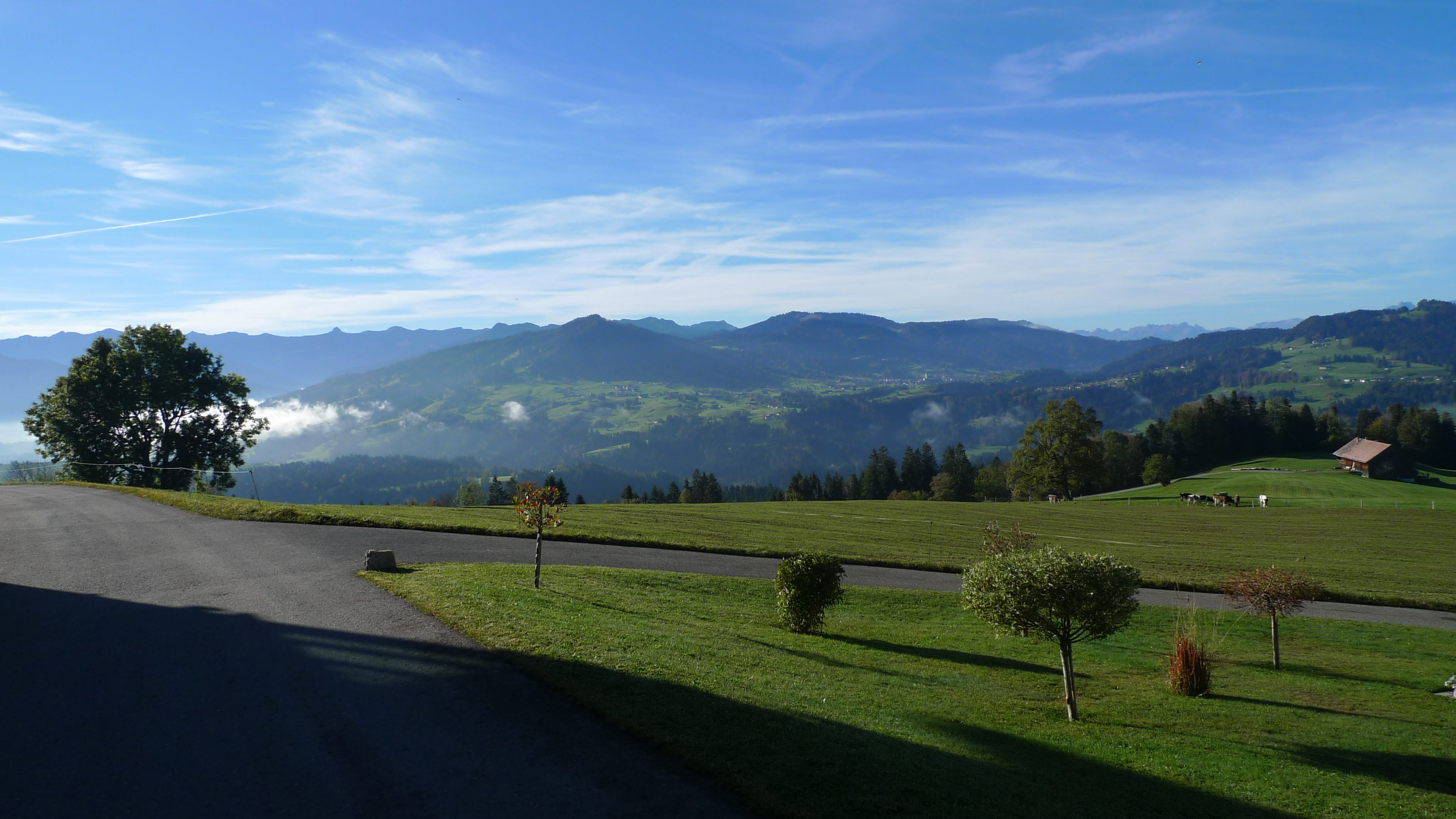 Vorderer Bregenzerwald near Doren at an altitude of 800 metres. View to the south towards Alberschwende.